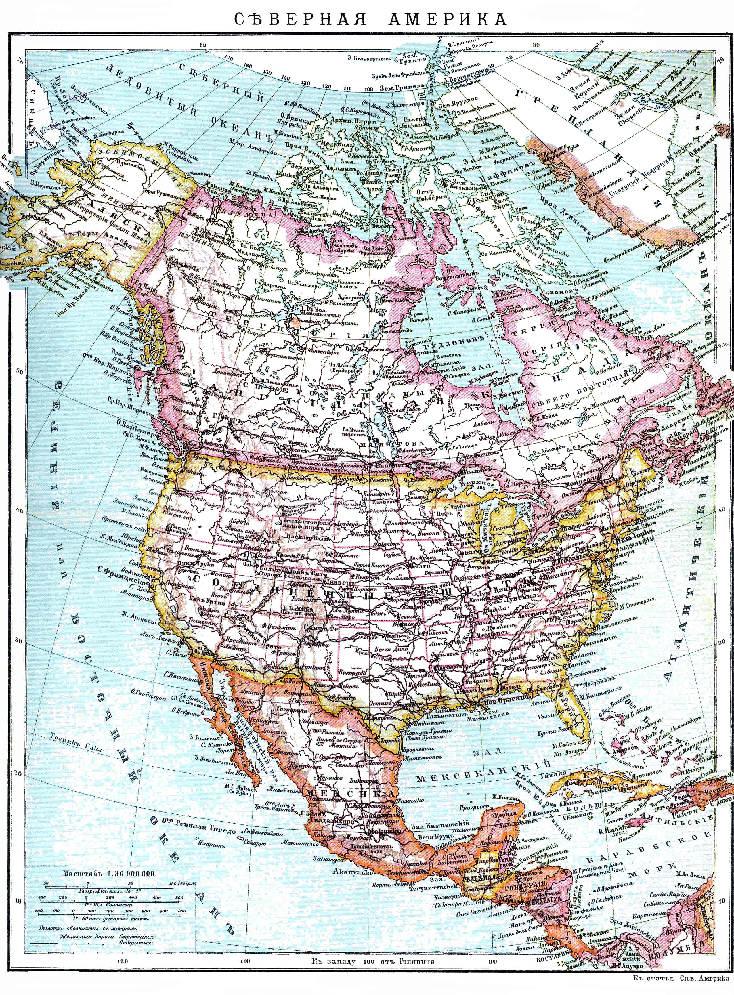 Illustration from Brockhaus and Efron Encyclopedic Dictionary (1890—1907)